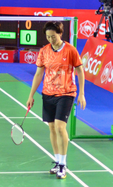 Pai Hsiao-ma